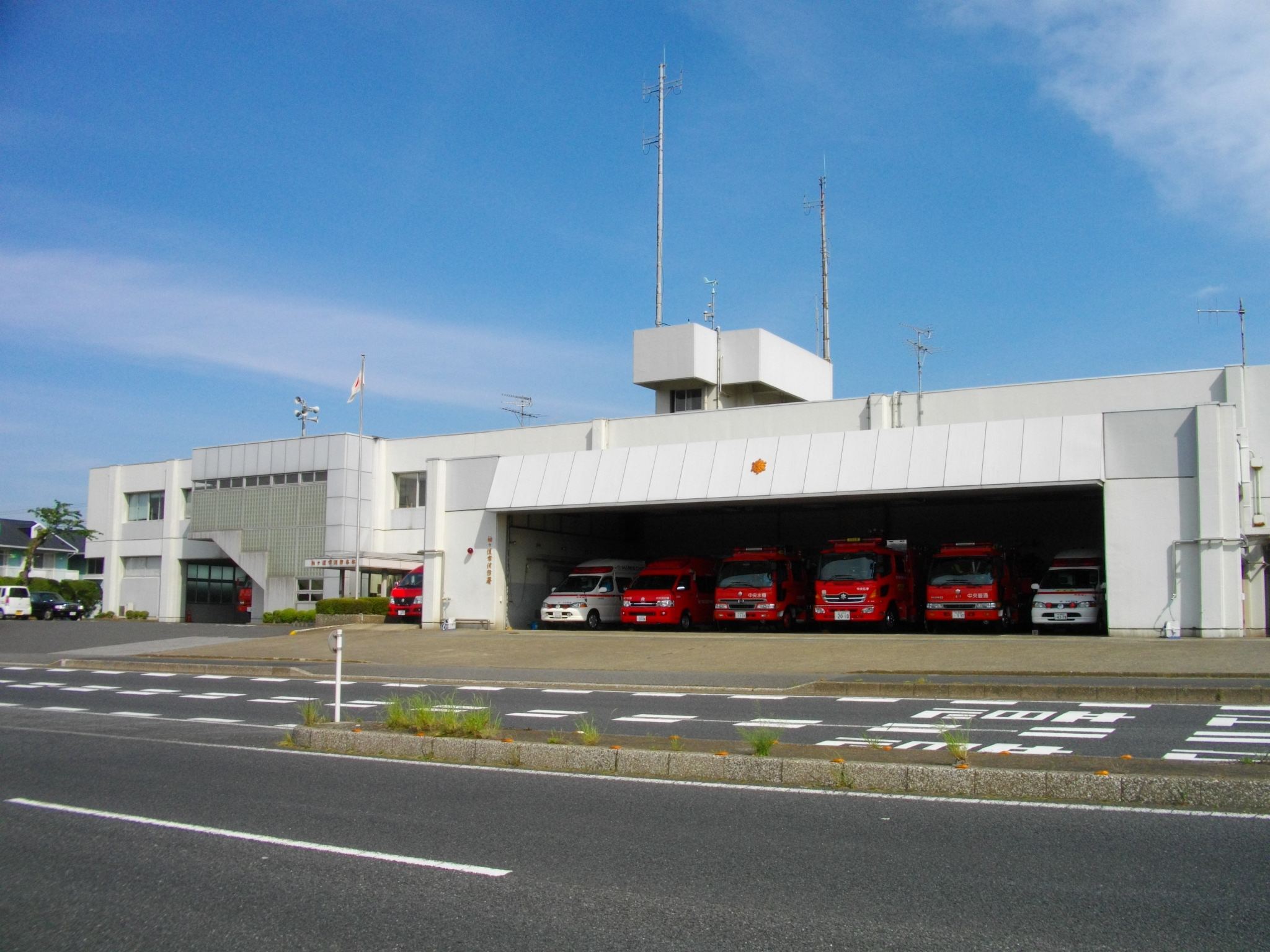 Sodegaura City Fire Department